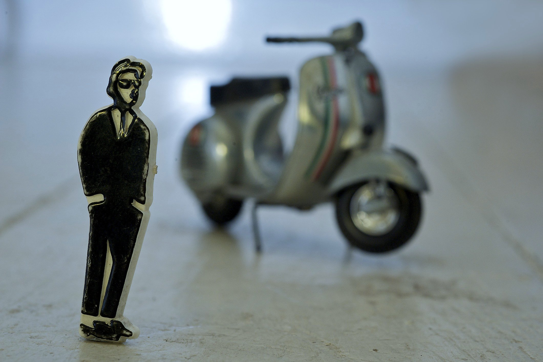 Don't look now but there's a giant scooter behind you.